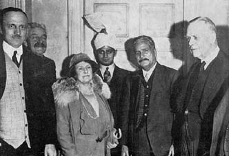 Muhammad Iqbal at a reception given by the National League, London in 1932.